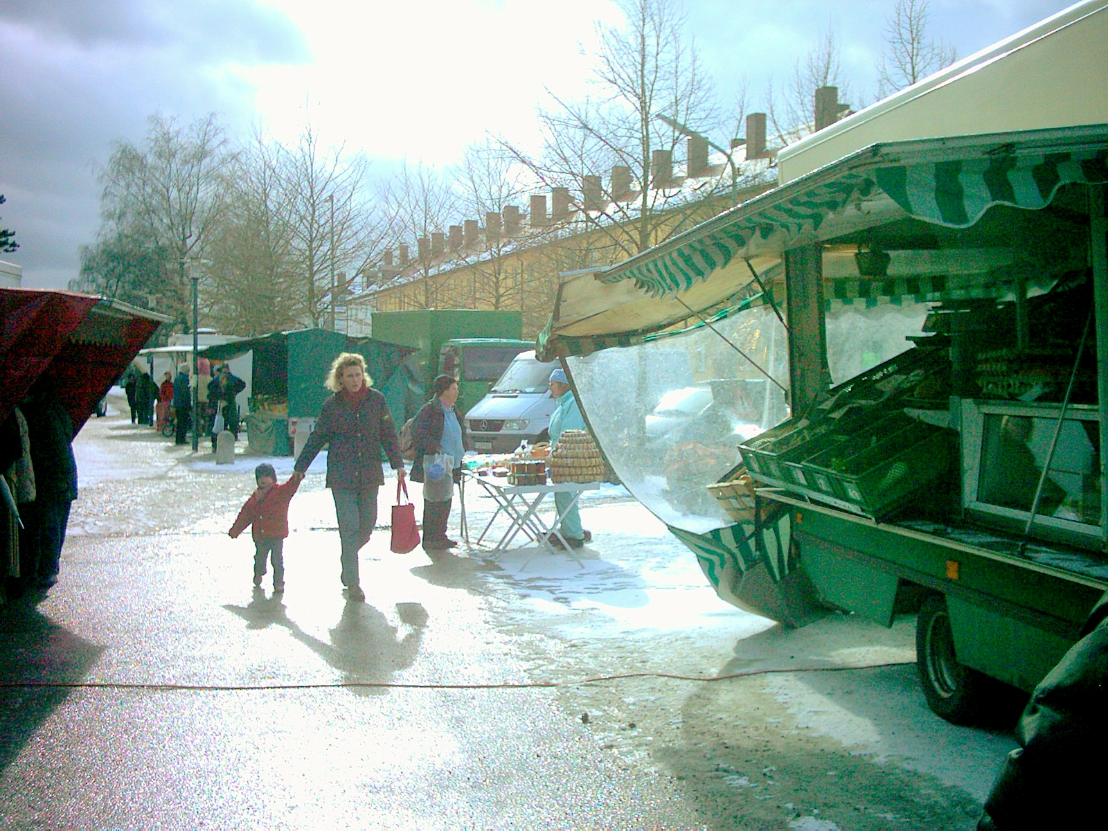 Weekly market at Mangfallplatz, Munich-Harlaching. Image taken by Dominik Hundhammer, 1st of March 2006.